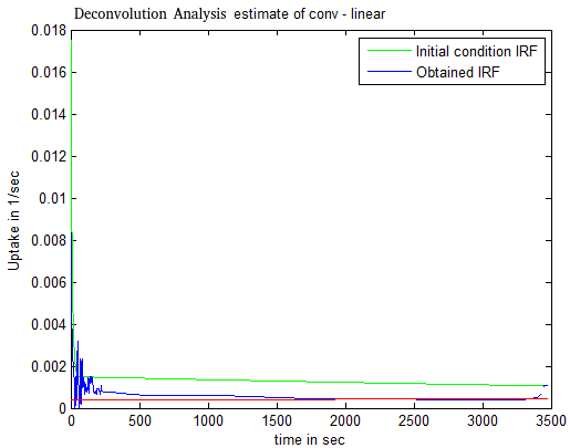 A bone TAC is modelled as a convolution of measured arterial input function with IRF. The estimates for IRF are obtained iteratively to minimise the differences between the bone curve and the convolution of estimated IRF with input function curve. The curve in green shows the initial estimates of the IRF and the blue curve is the final IRF which minimises the differences between the estimated bone curve and the true bone curve. Ki is obtained from the intercept of the linear fit to the slow component of this exponential curve which is considered the plasma clearance to the bone mineral, i.e. were the red line cuts the y axis.